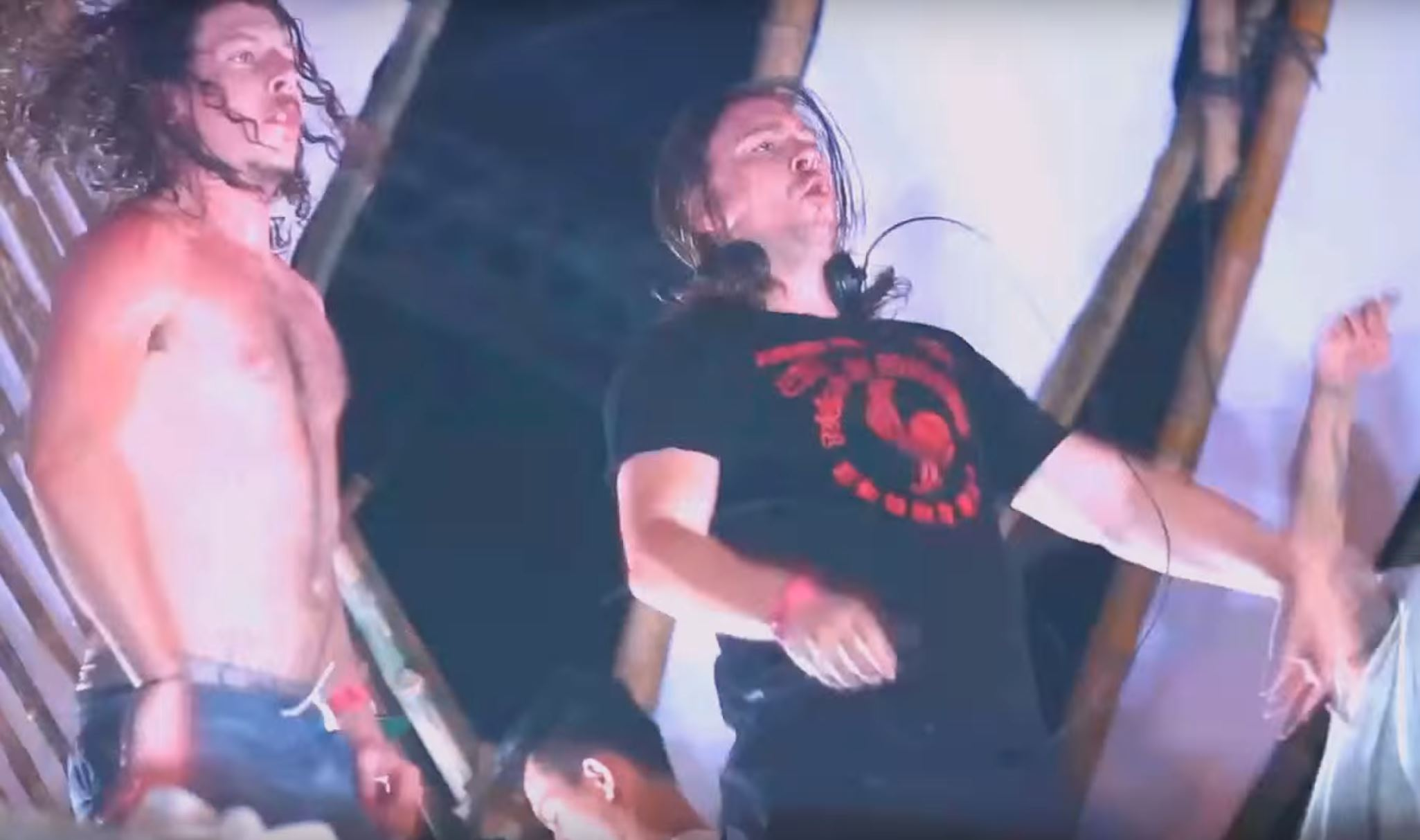 Cropped video still of Peking Duk performing at Danang Music Festival 2015